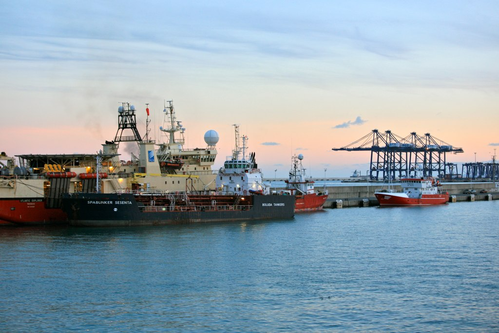 Leaving Algeciras Spain